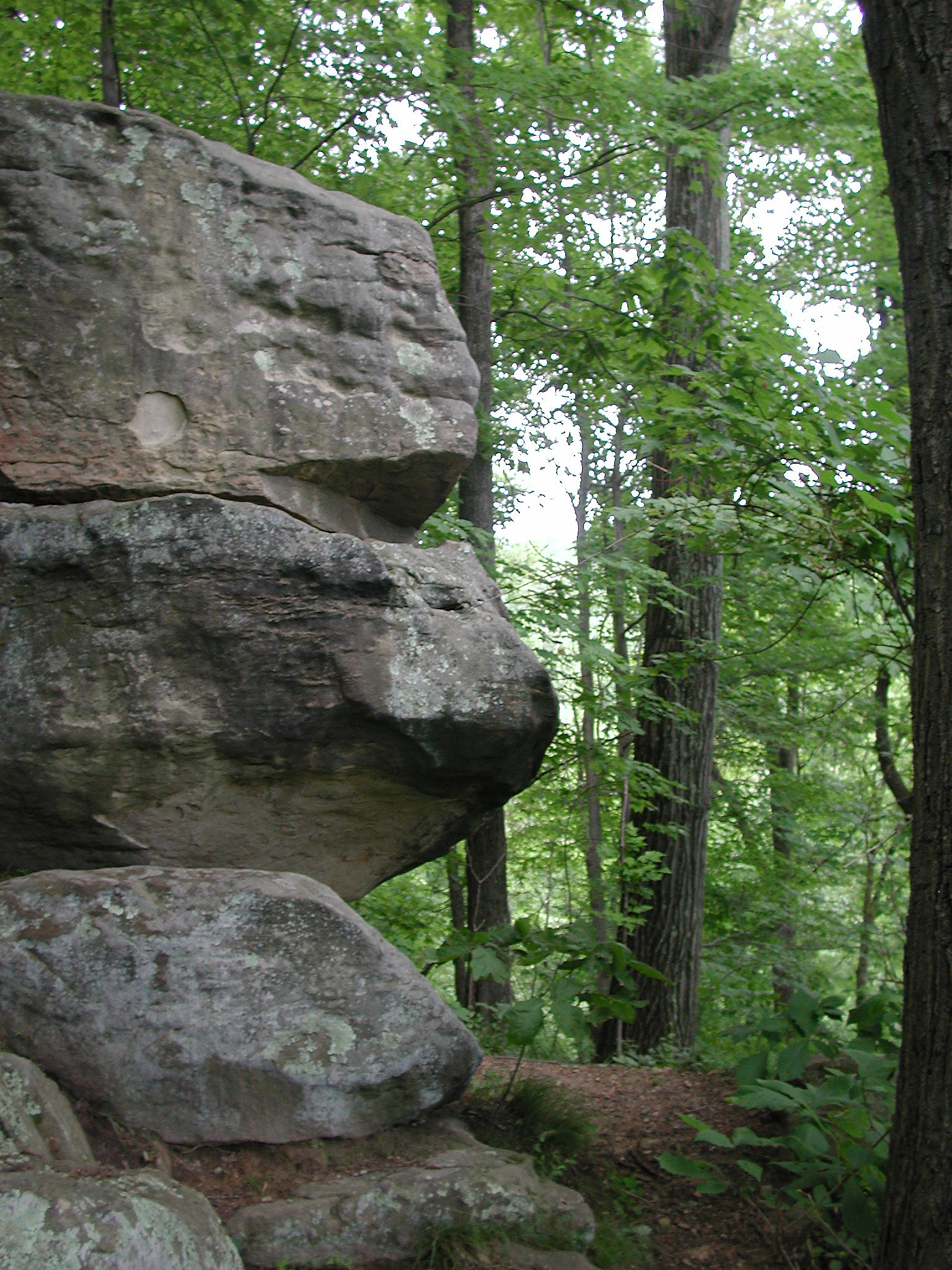 Lookout point at Sells Park, Athens, Ohio, just northwest of north end of Avon Place